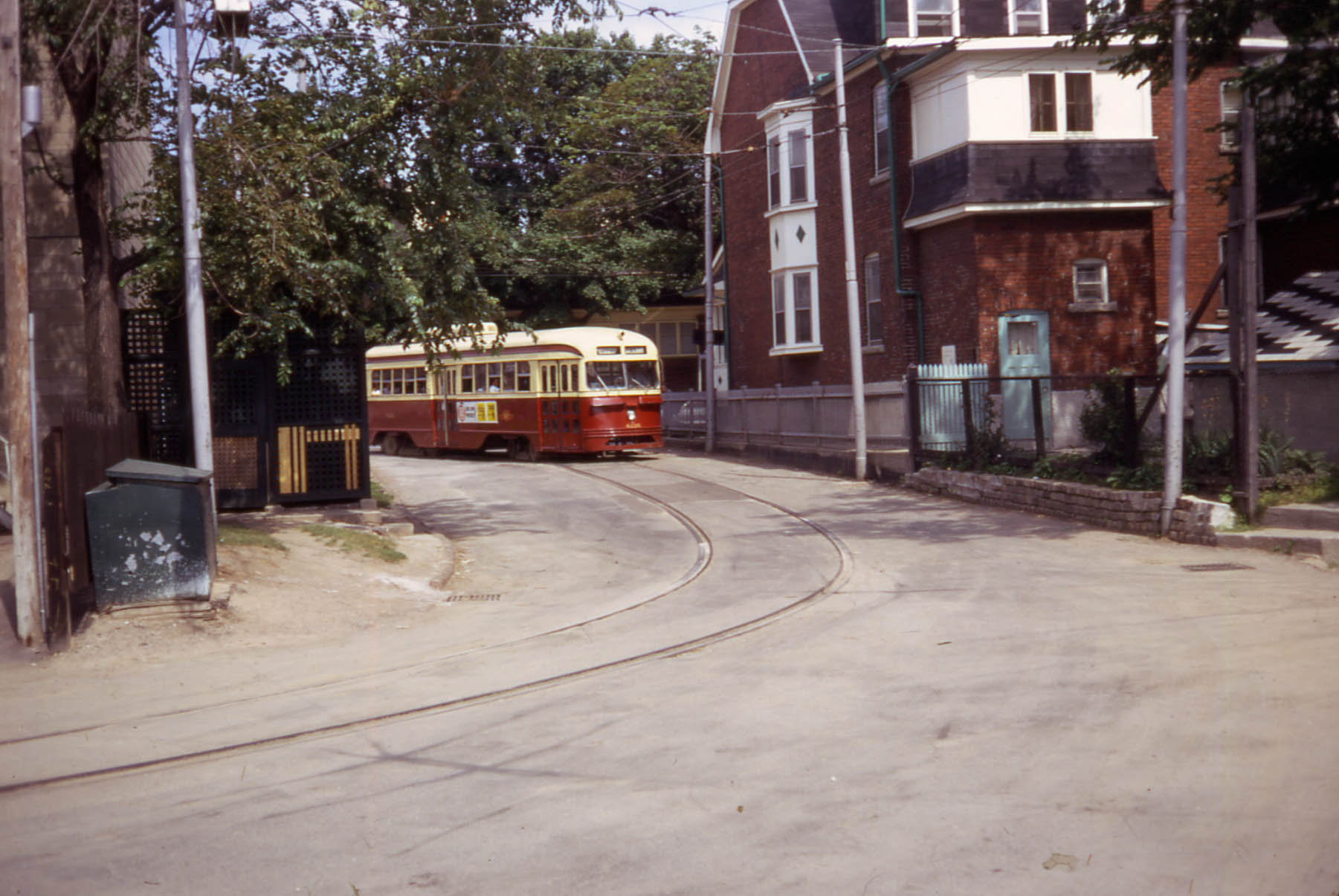 1968-07-07 28 TTC 4226 Earlscourt Loop